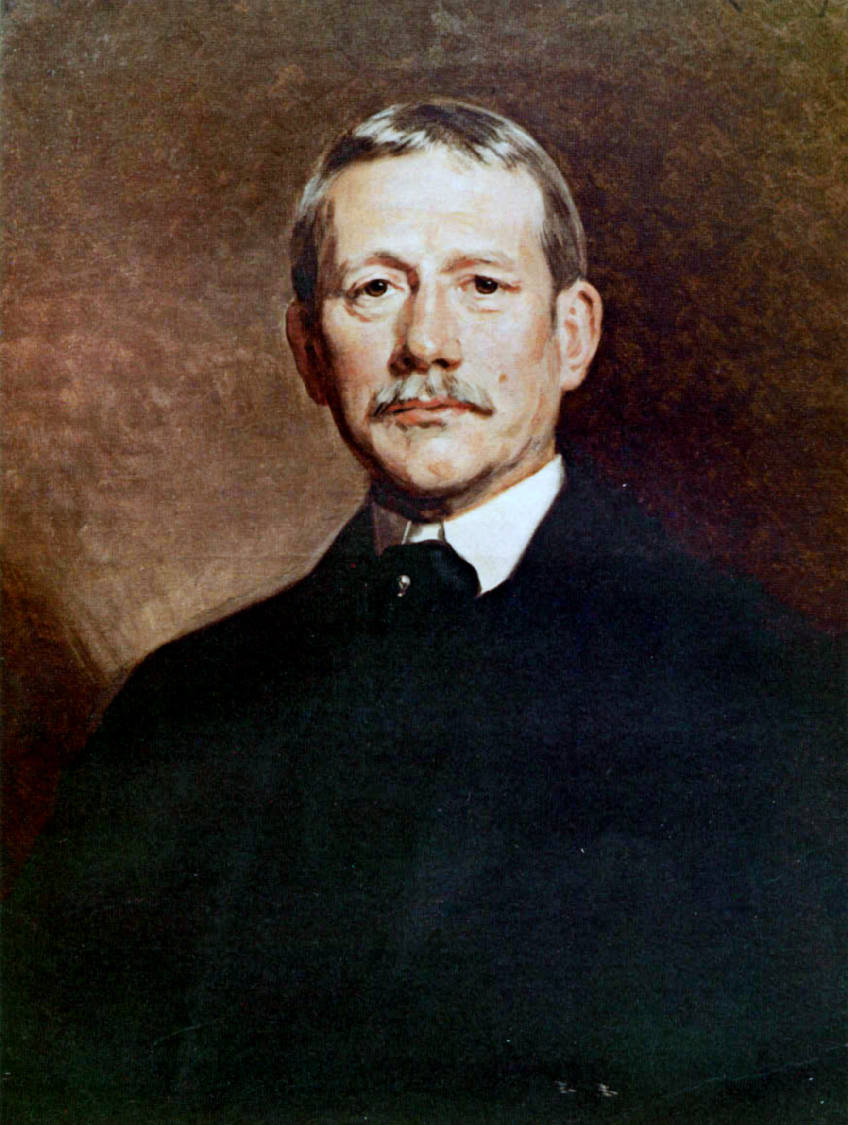 Elihu Root. Painting oil on canvas, 31½" x 25½".